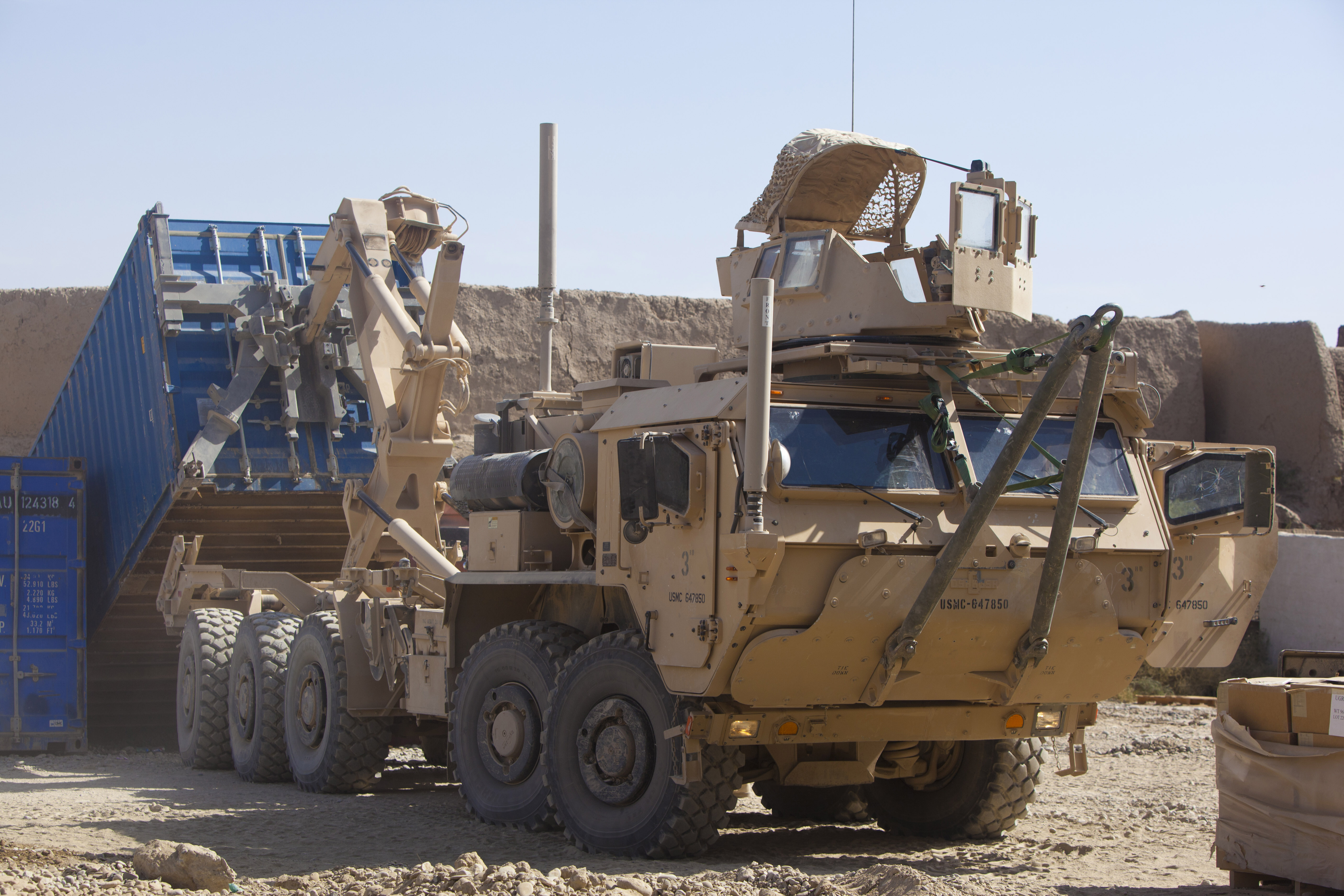 Marines with Combat Logistics Regiment 2, Regional Command (Southwest), use a Logistics Vehicle System Replacement to load a container at Musa Qala, Helmand province, Afghanistan, Oct. 22, 2013. CLR-2 conducted a five-day resupply and backhaul mission in support of various bases within the province.